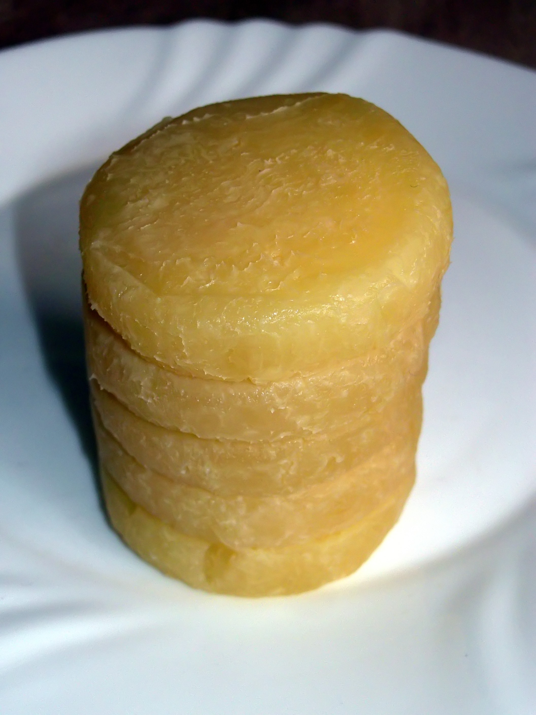 Olomoucké syrečky